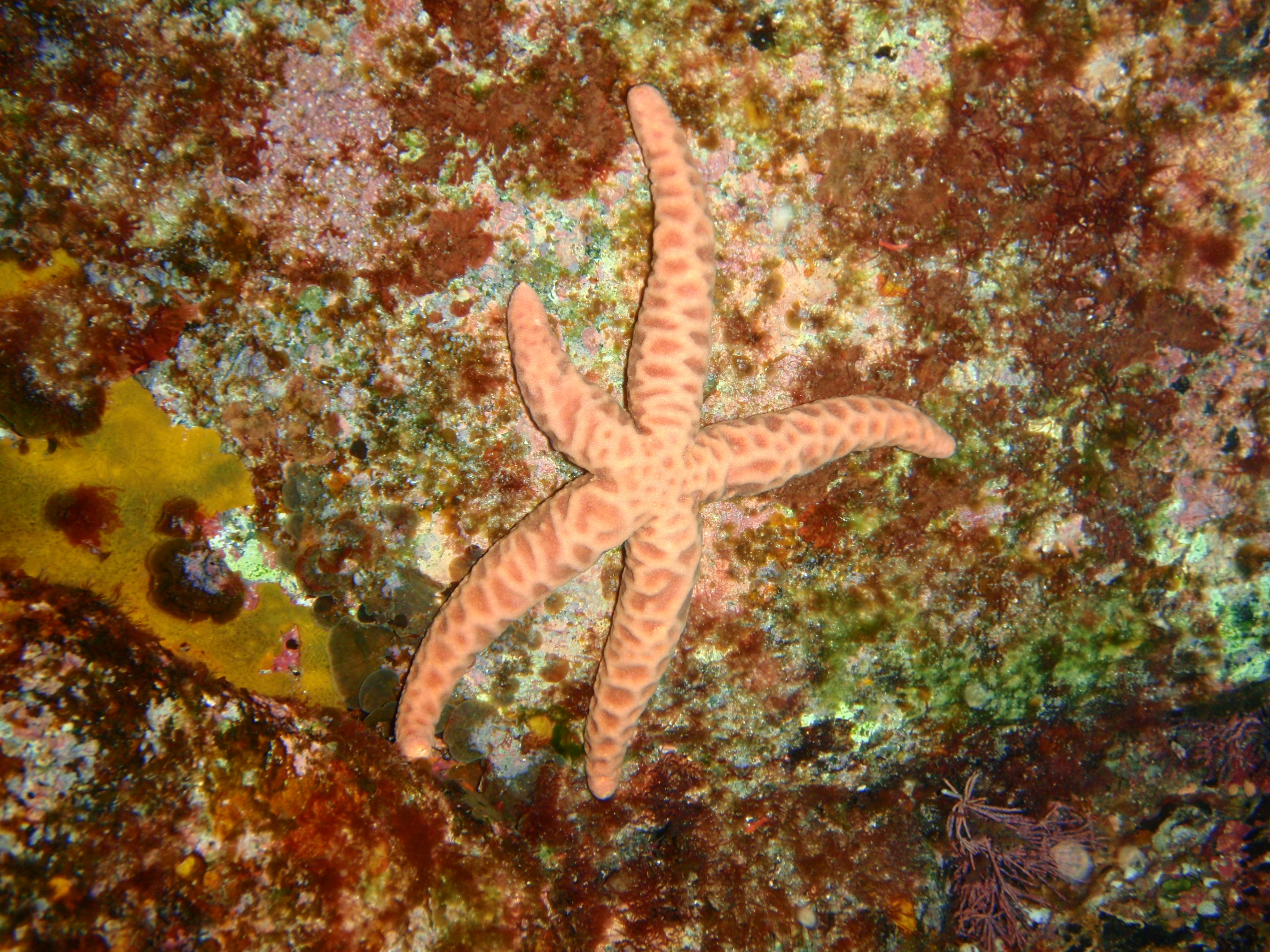 Pale mosaic seastar Echinaster arcystatus at Cornwall Island, Western Australia